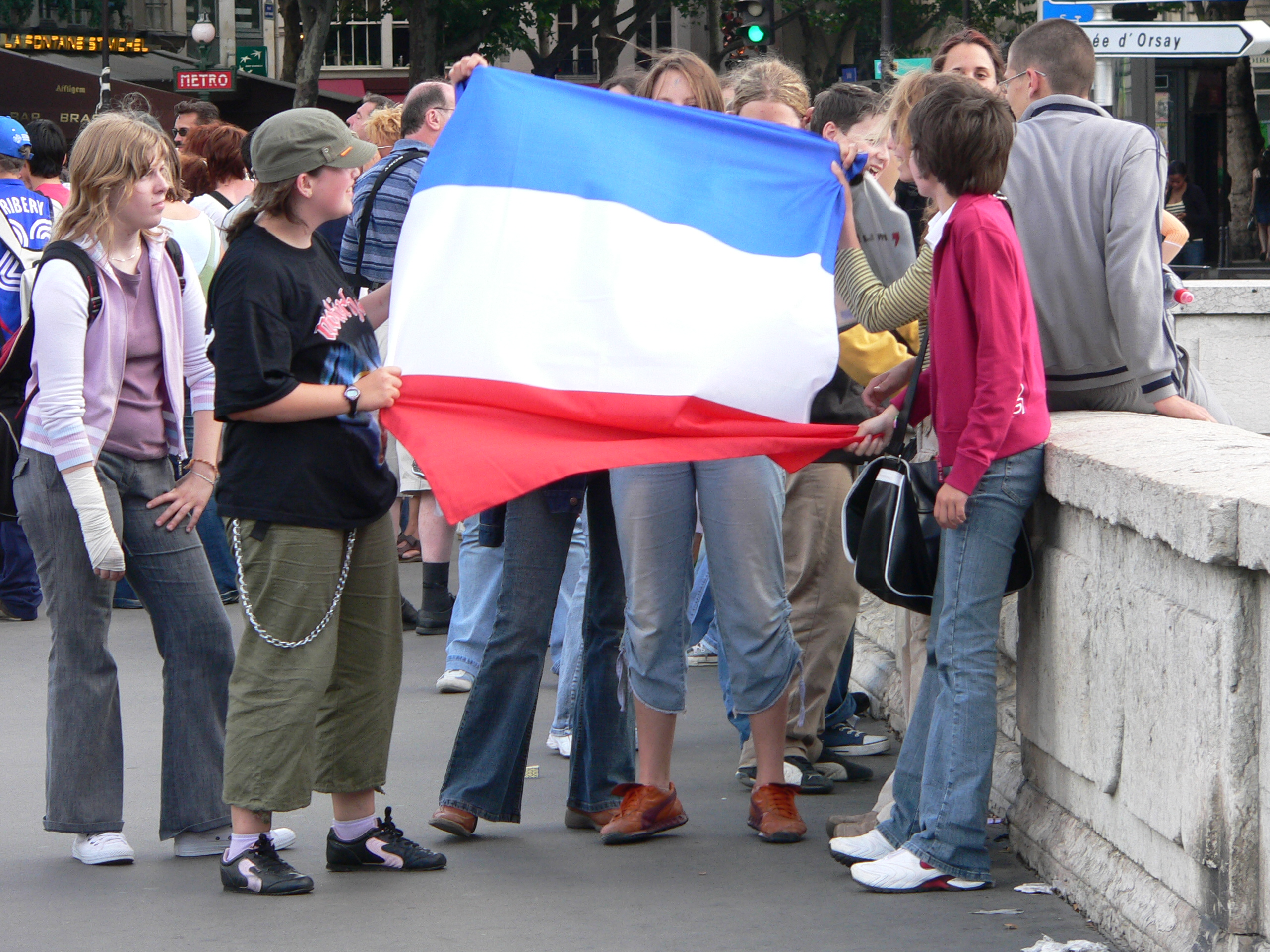 Parisian youth preparing for the 2006 FIFA World Cup.